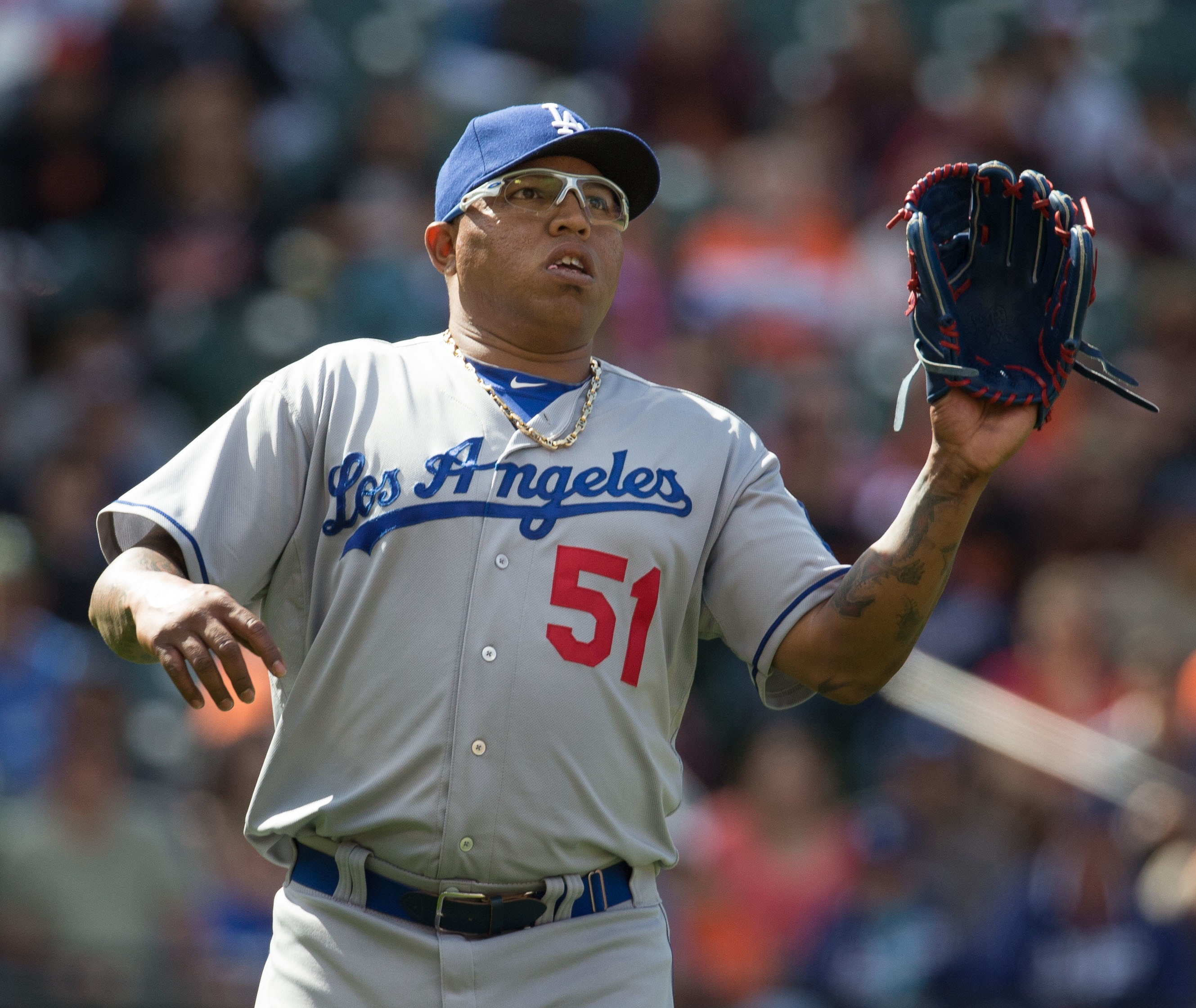 Los Angeles Dodgers pitcher Ronald Belisario – Los Angeles Dodgers at Baltimore Orioles April 20, 2013